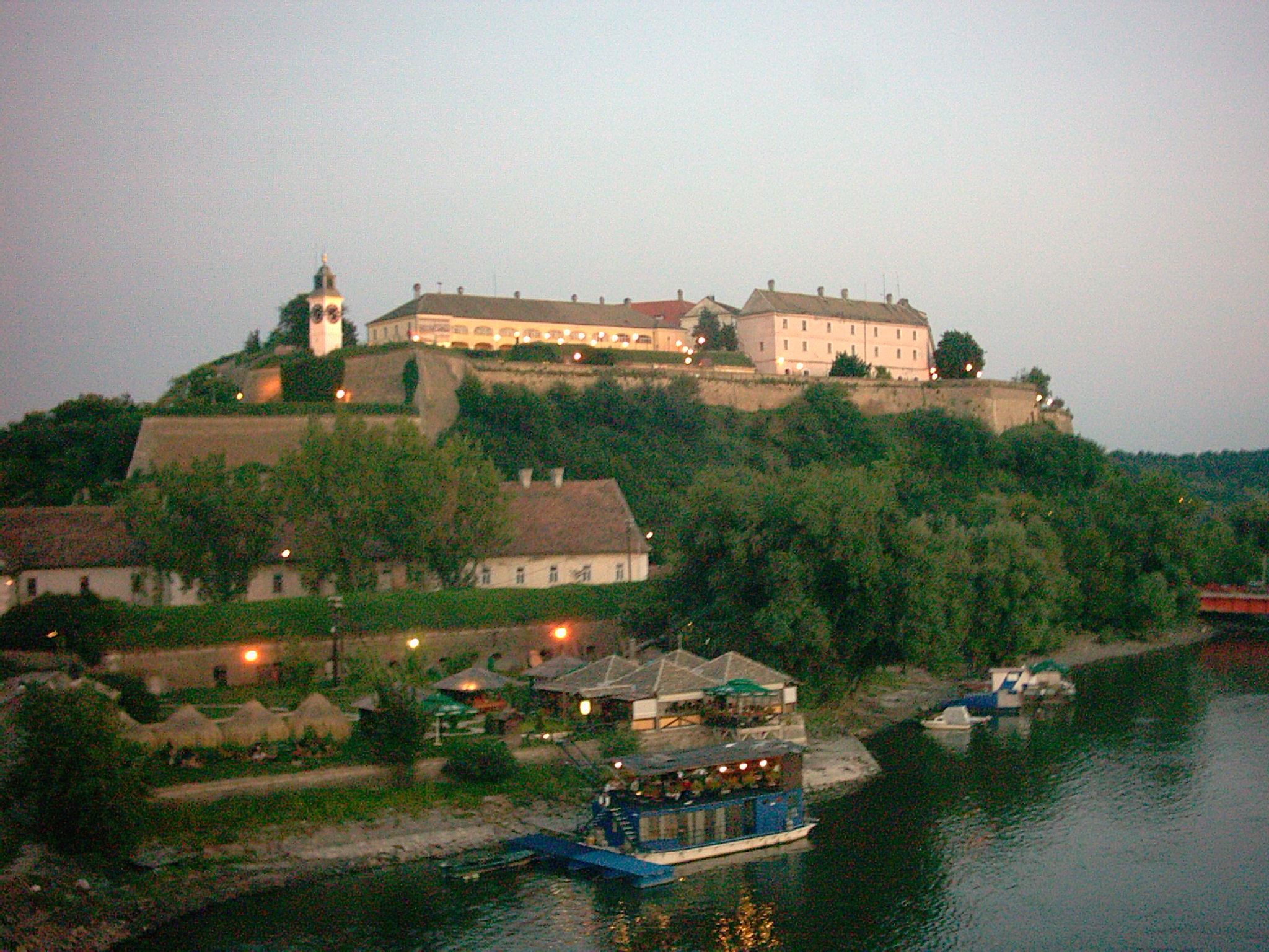 View of Petravaradin (Serbia) in evening.